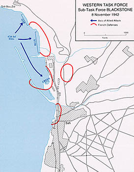 Sub-task force BLACKSTONE landing site, Safi, Morrocco, as part of Operation TORCH